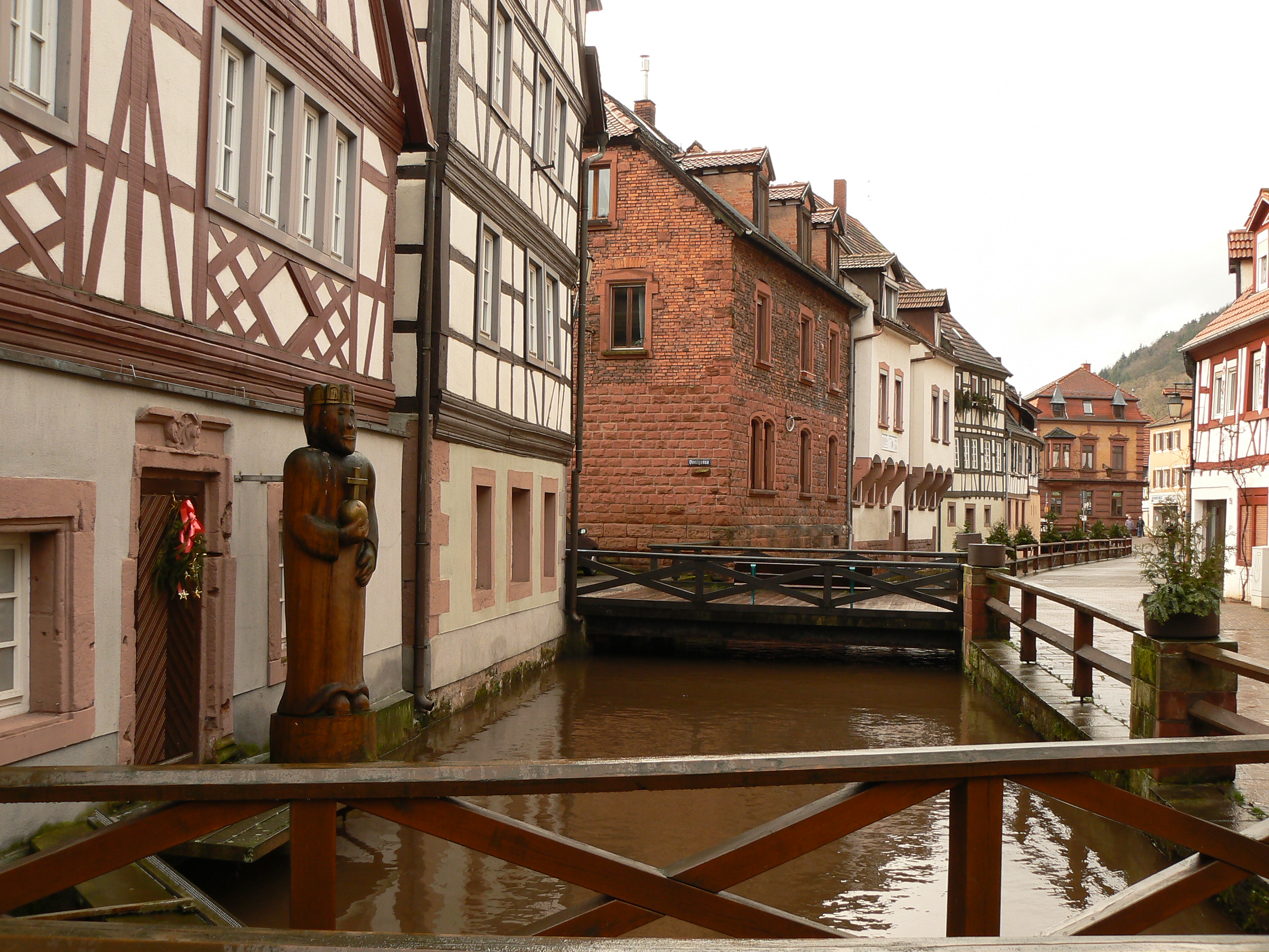 pd-self